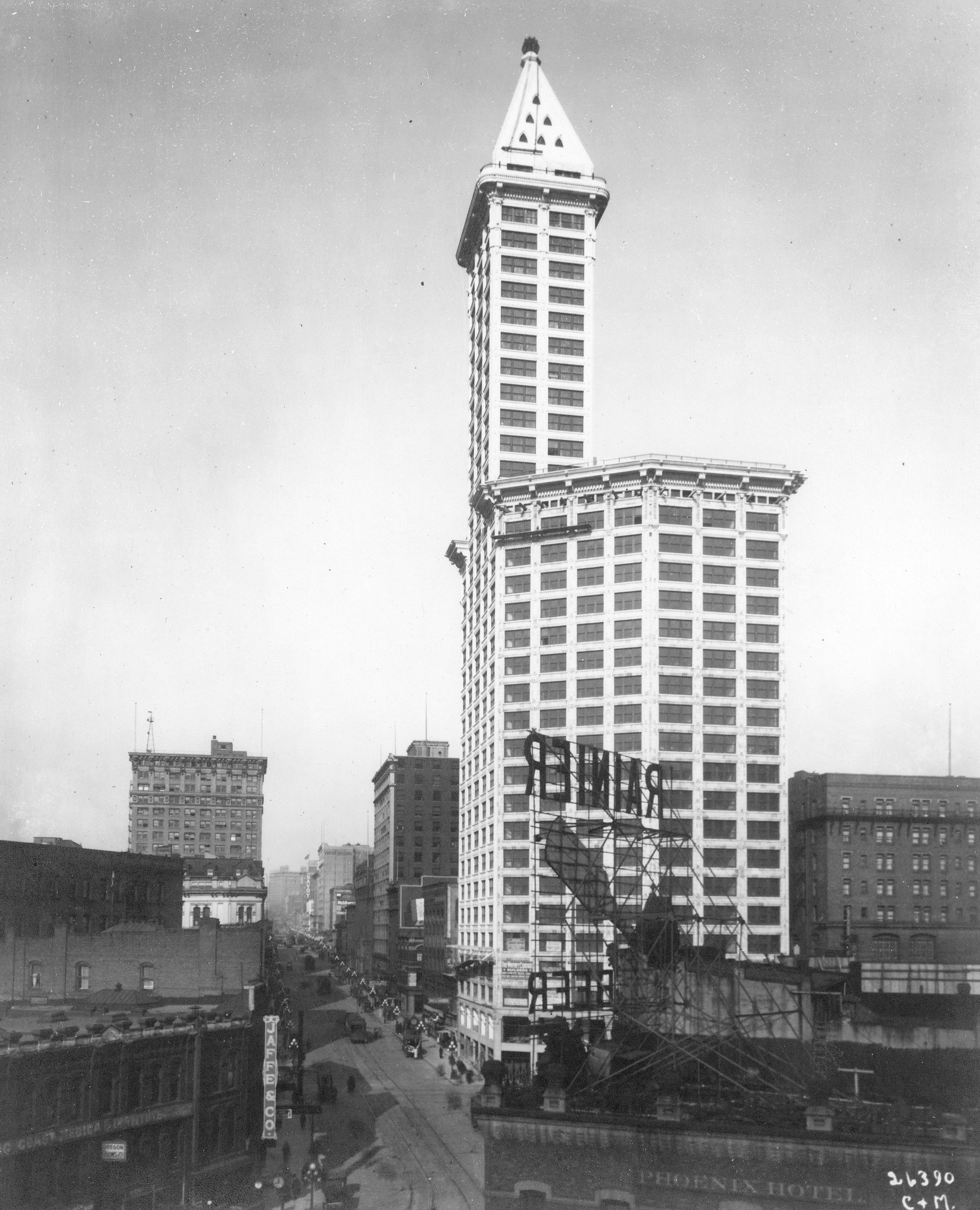 Looking north on 2nd Ave. Also visible are portions of the Hoge Building and Arctic Club Building. Subjects (LCTGM): Buildings--Washington (State)--Seattle Subjects (LCSH): Smith Tower (Seattle, Wash.)